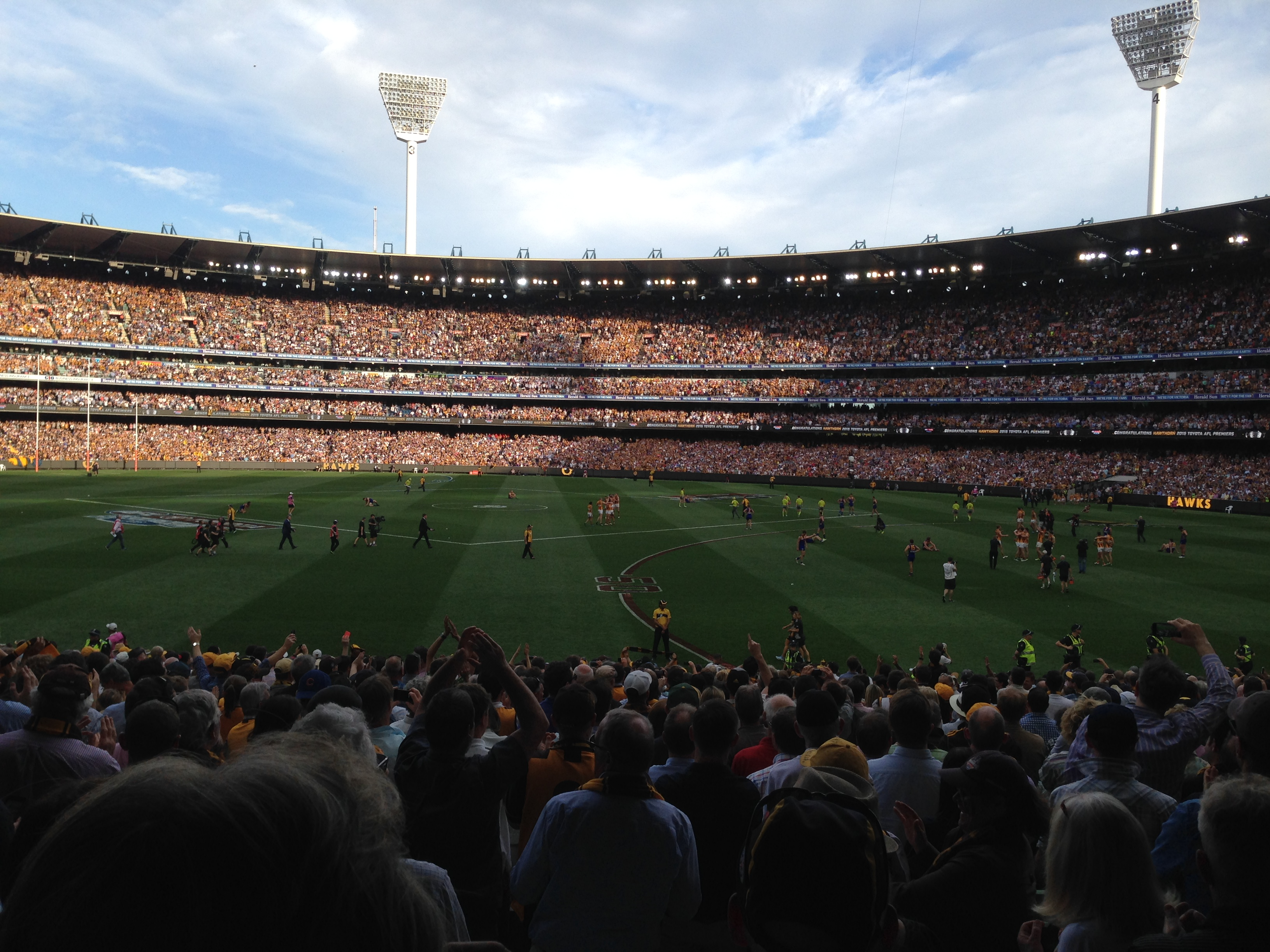 Just after the final siren of the 2015 AFL Grand Final. Hawthorn players celebrate their victory over West Coast.